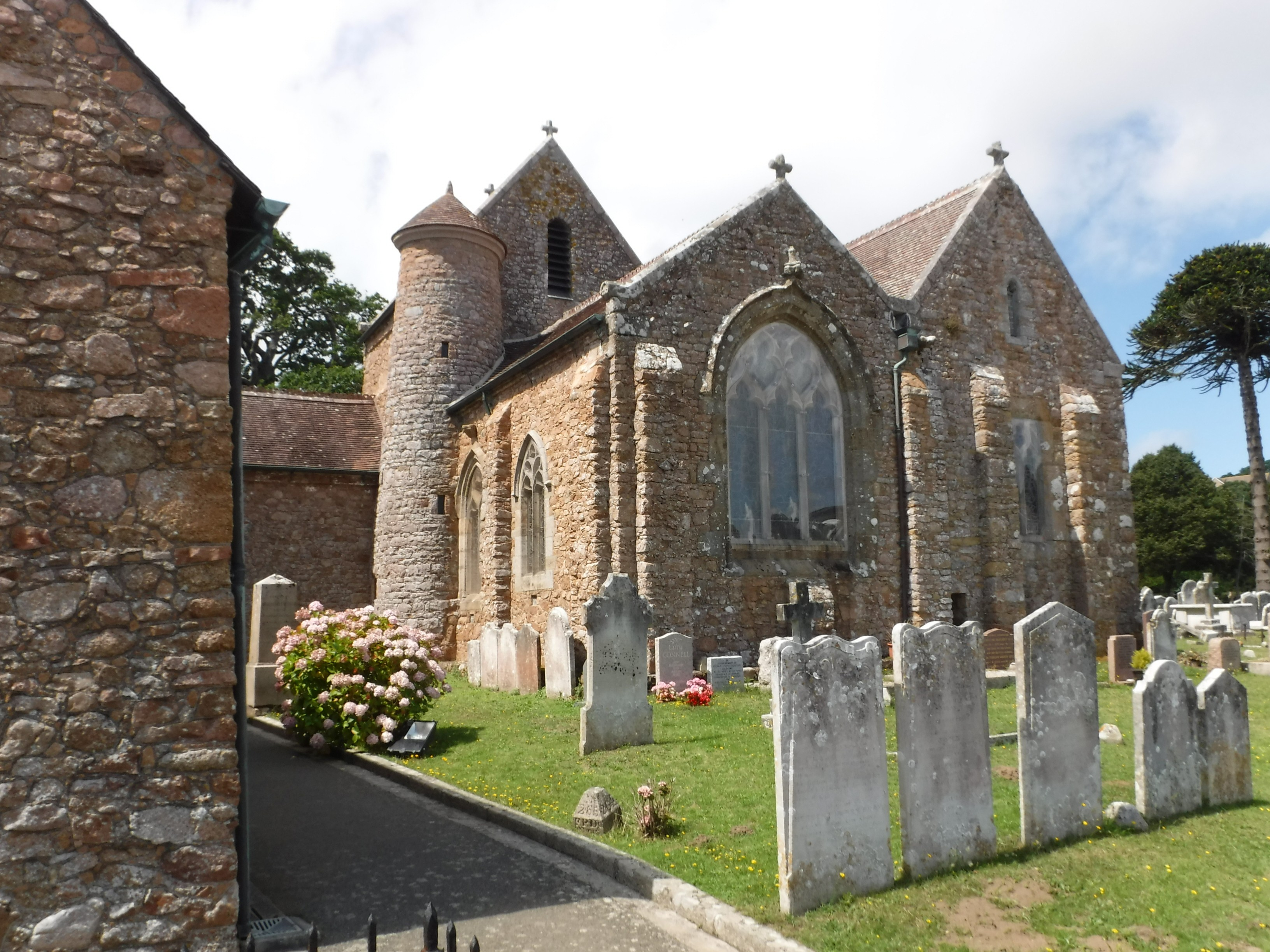 Saint Brélade cemetery and St Brelade's Church